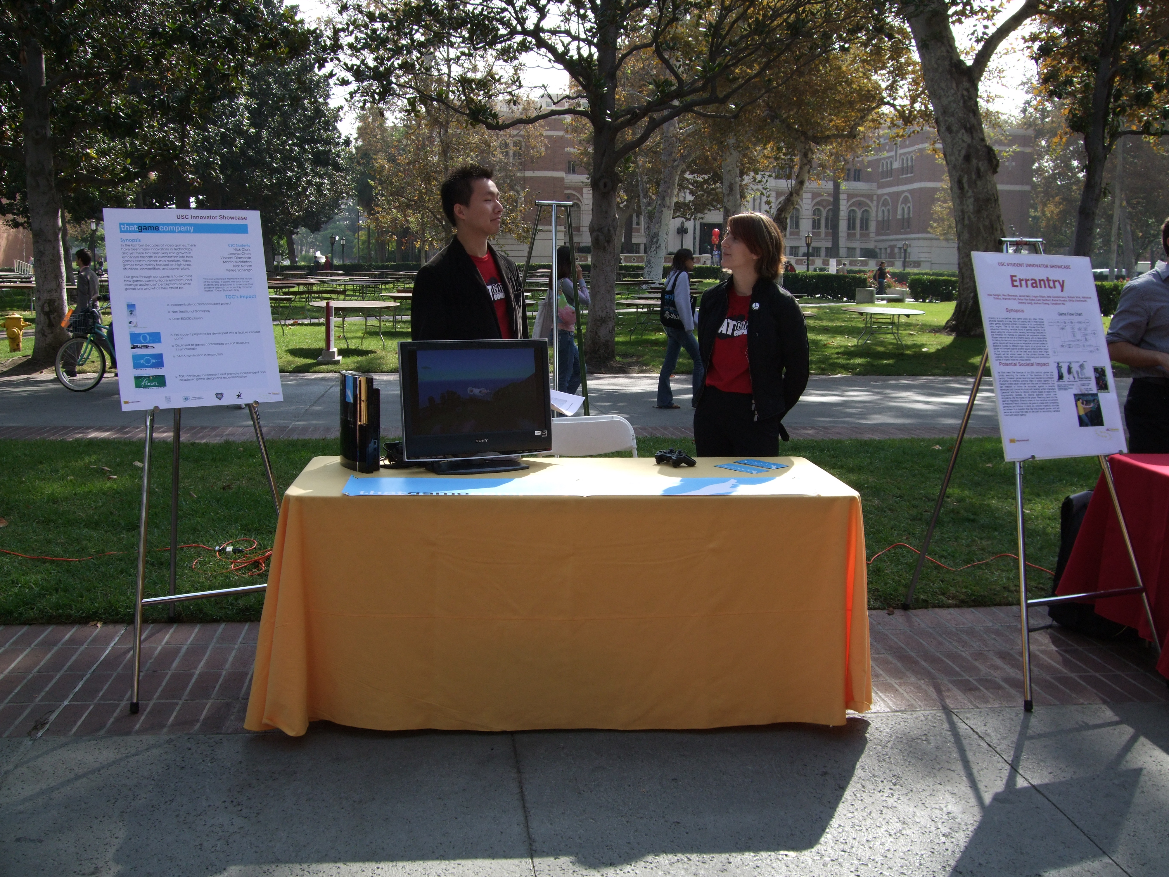 Jenova Chen and Kellee Santiago